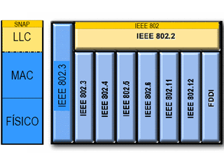 SNAP in IEEE 802